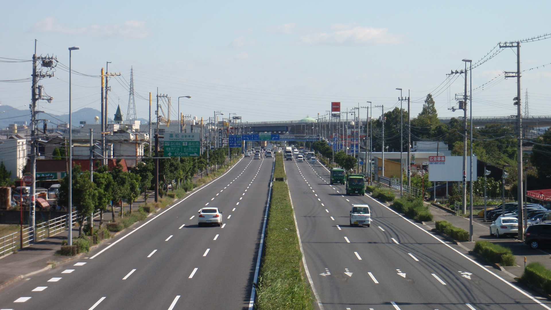 Route 11 in Mimaya view east